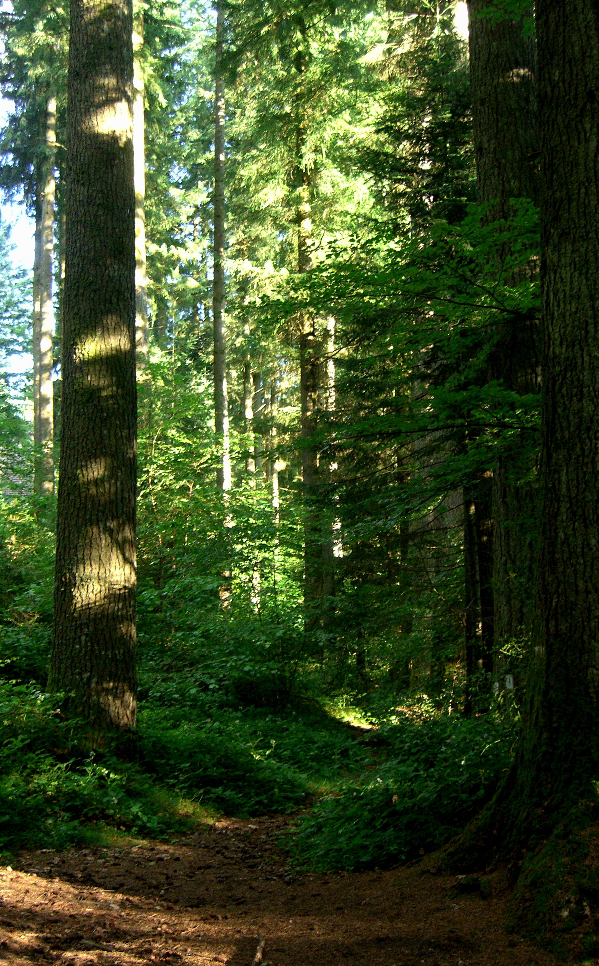 Pseudotsuga menziesii Forest in Meymac, Corrèze, Limousin, France